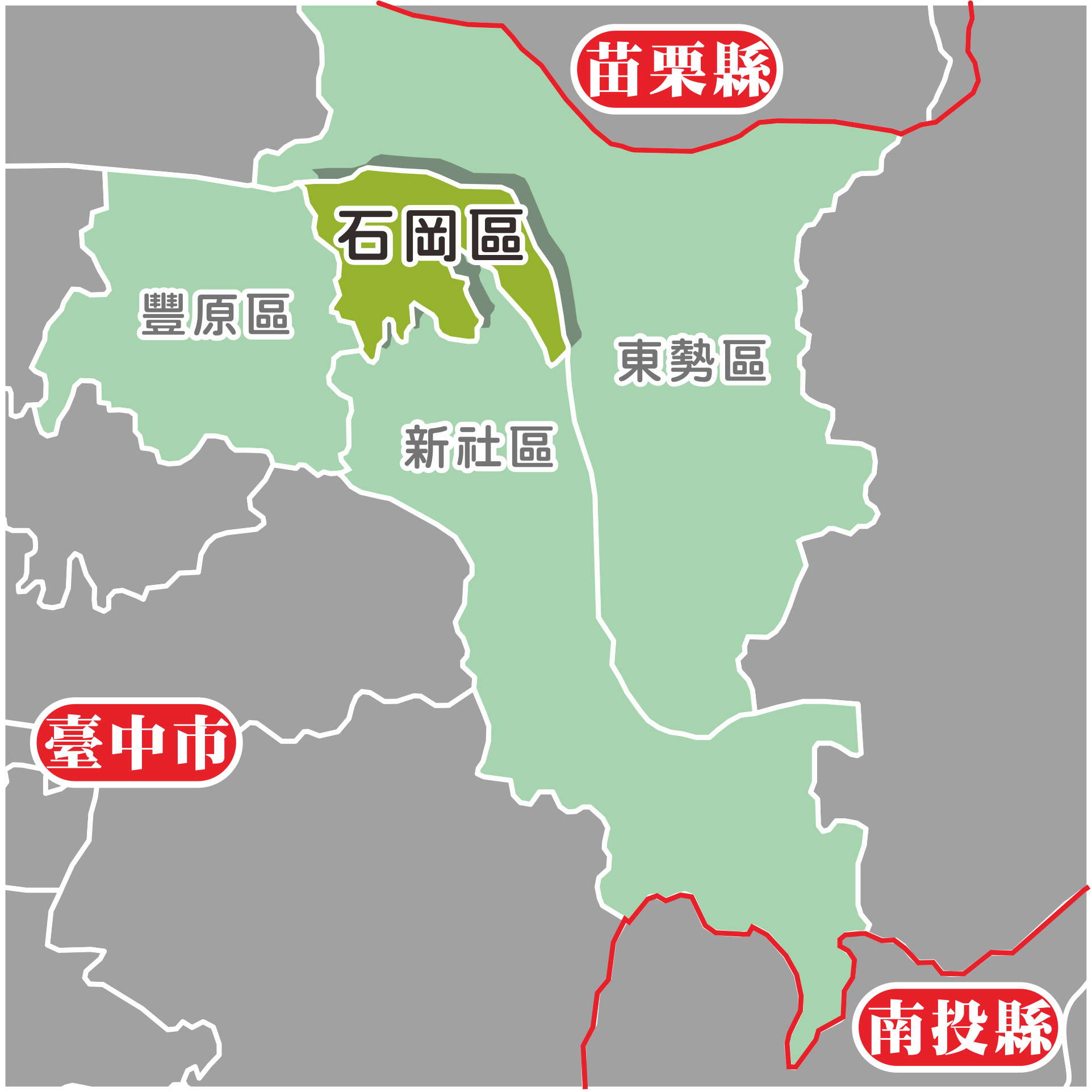 Shigang District